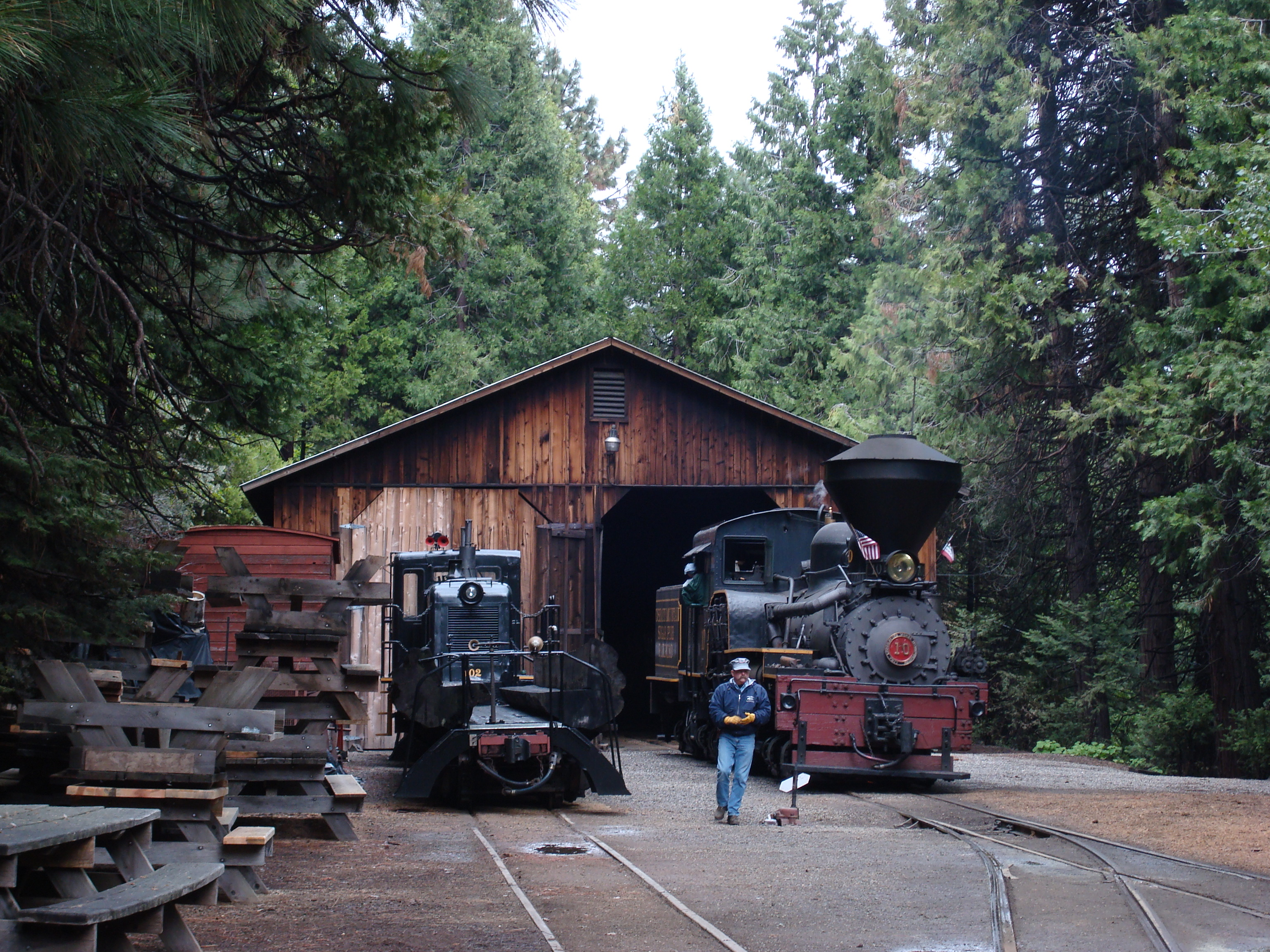 photograph taken of the engine shops at the railroad, with shay 10 backing in after a run